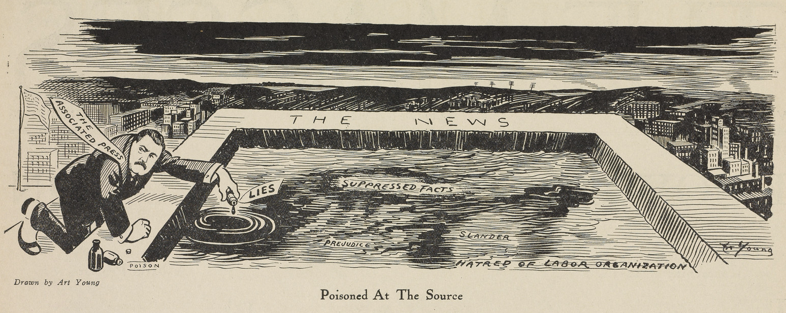 Political cartoon of the Associated Press poisoning the well of the news with suppressed facts, lies, prejudice, slander, and hatred of labor organization. This political cartoon is in regards to the lack of the news coverage for fourteen months of the Paint Creek Strike of 1912 in which martial law courts were imposed in West Virginia against strikers.